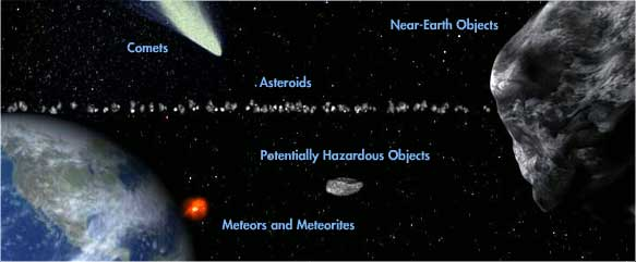 near earth objects map